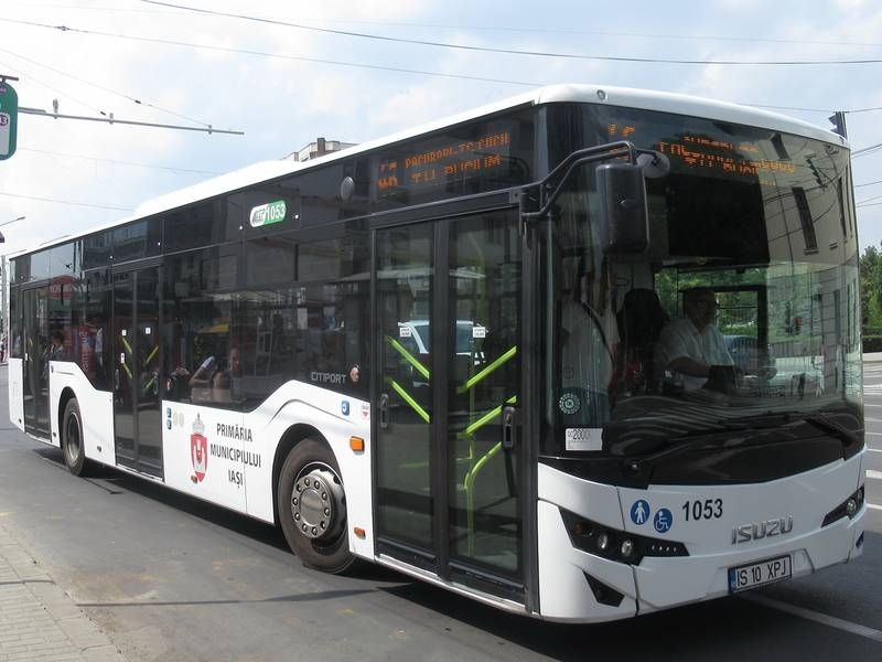 Isuzu Citiport (1053) on route 46 in Iași (Romania)